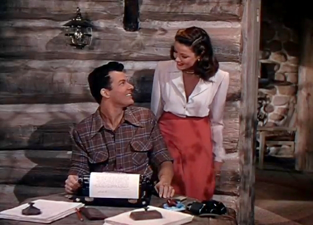 Screenshot of Cornel Wilde and Gene Tierney from the film Leave Her to Heaven.